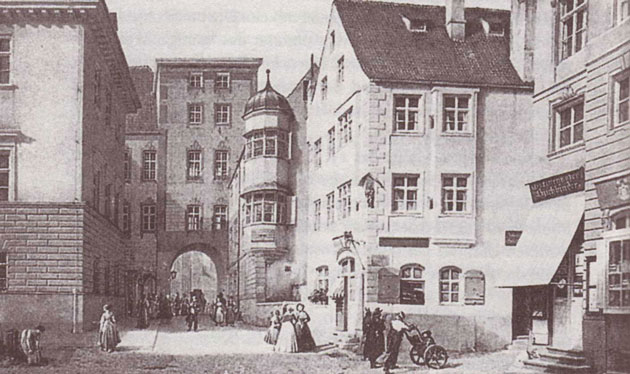 Vorderes Schwabinger Tor in Munich, also called Krümleinsturm